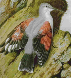 Wallcreeper